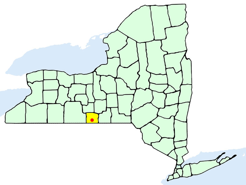 I created this using an image in the public domain.